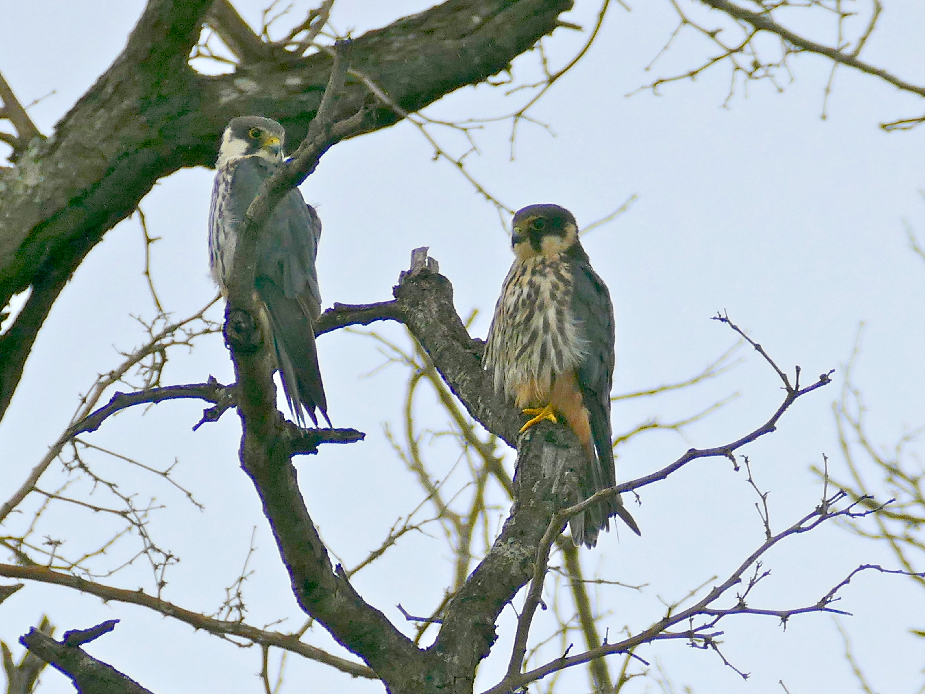 Eurasian Hobby Falco subbuteo, S110 Road north of Berg-en-Dal, Kruger NP, SOUTH AFRICA